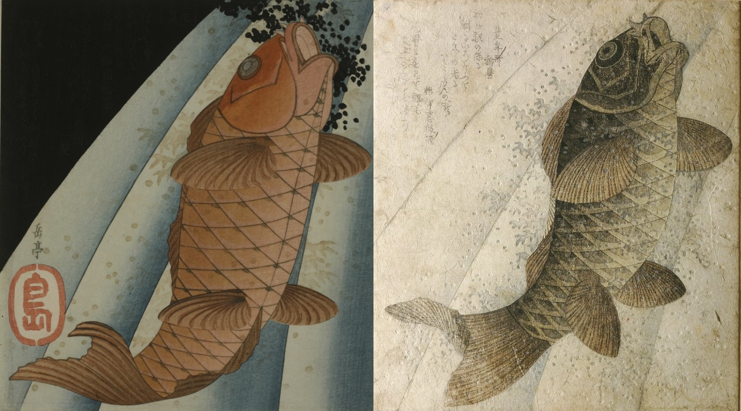 surimono by Yashima Gakutei, jumping carp, left later reproduction, right originale version, c. 1830